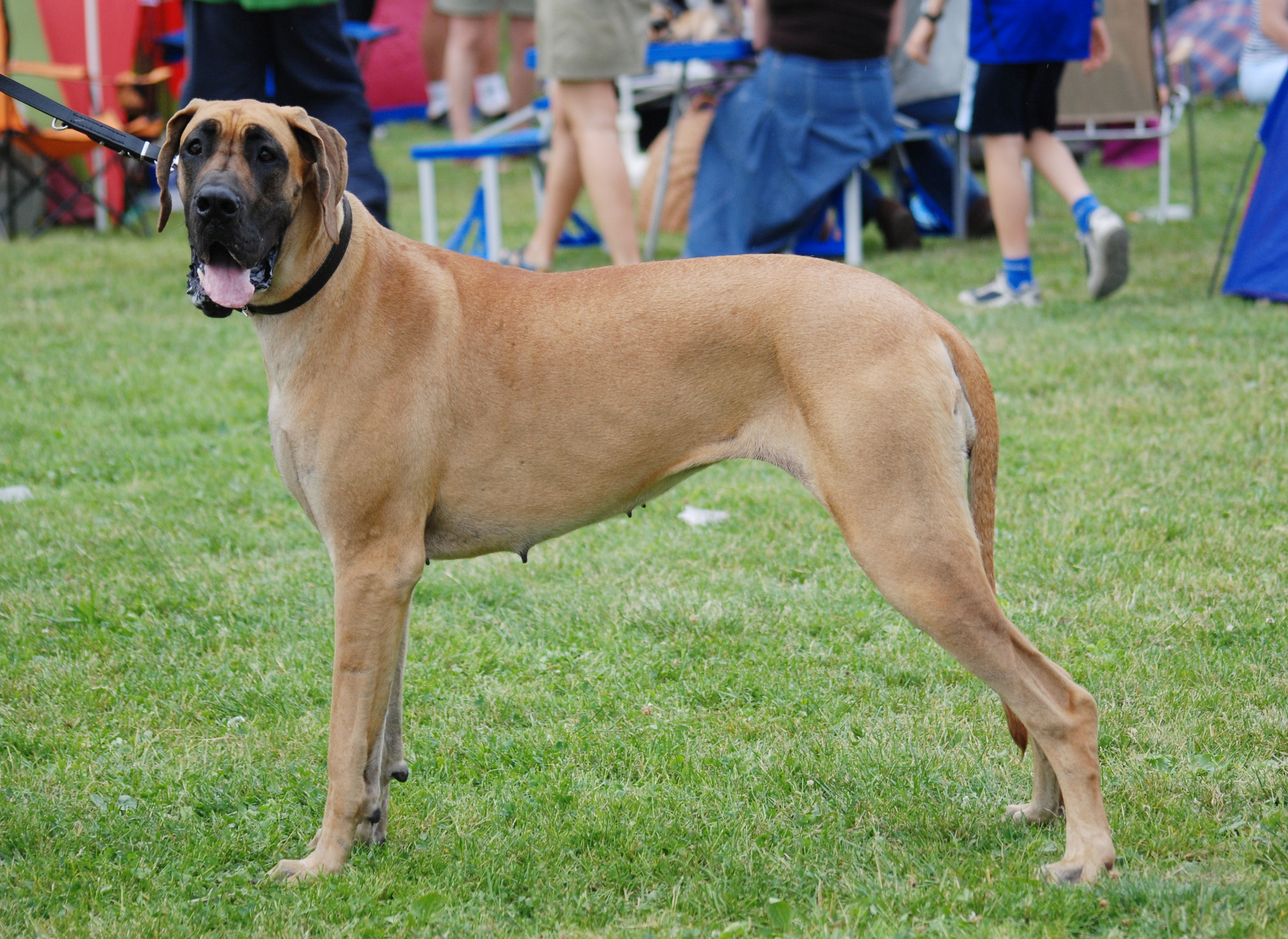 Great Dane, dog show, Racibórz